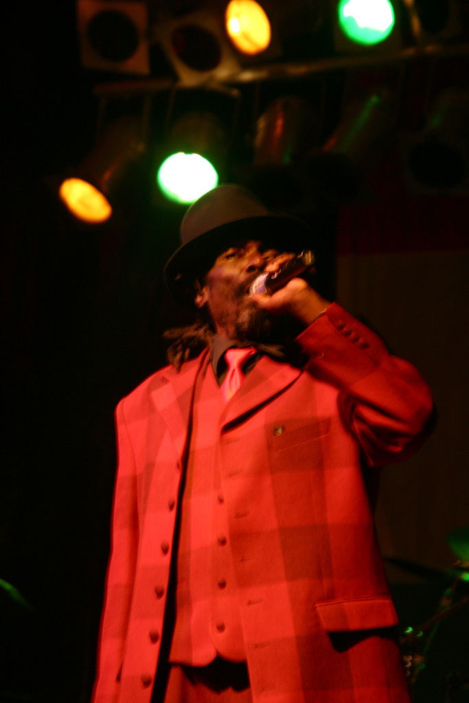 Joseph Hill of Culture at Jamaican Reggae Festival in Kandel 2006. Rest in Peace!